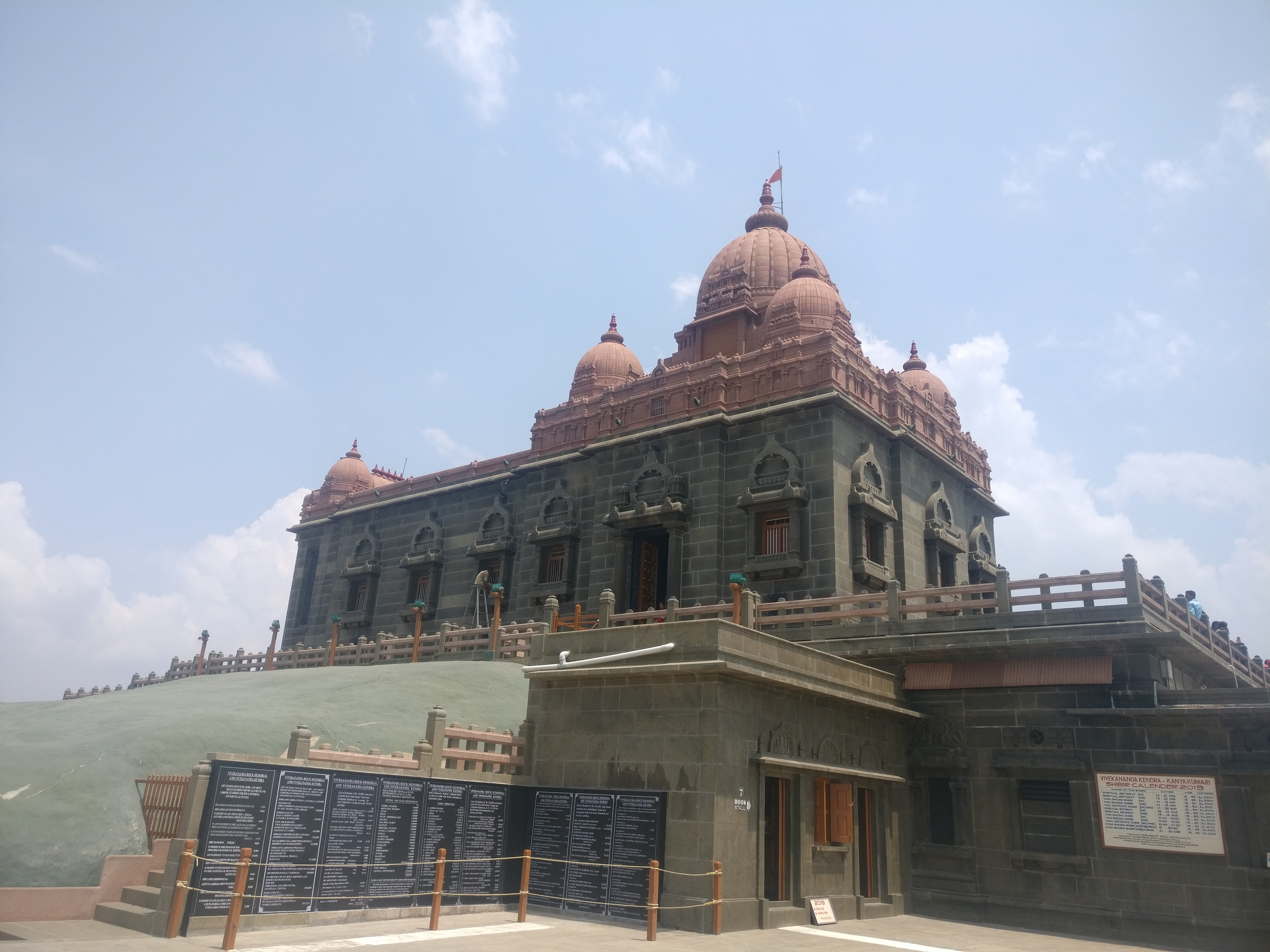 Kanyakumari vivekananda temple